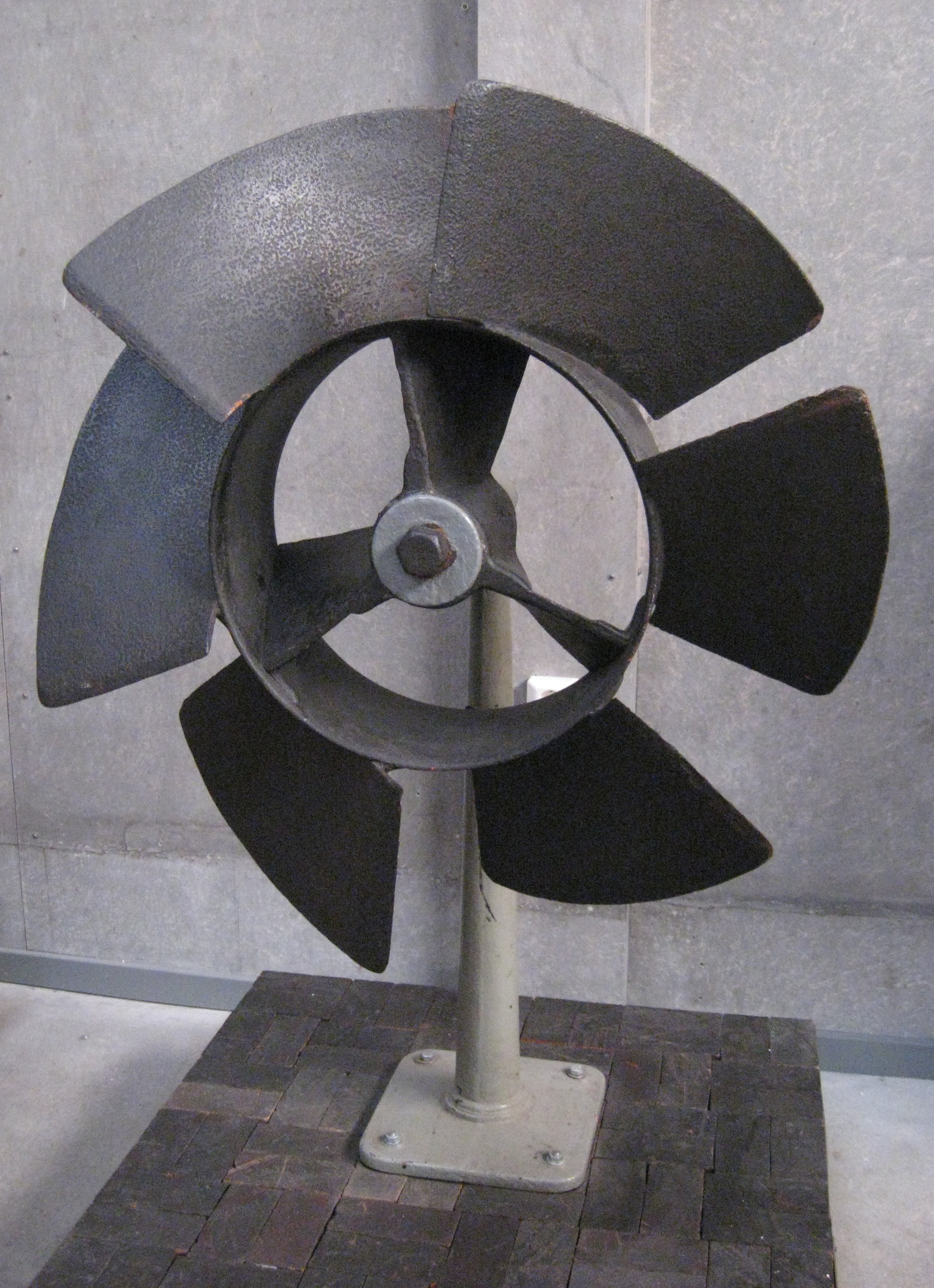 Ship propeller 1843. Motala Works. This is the oldest ships propeller still preserved in Sweden. It was designed by C F Wahlgren based on one of John Ericsson's propellers. It was fitted to the steam ship s/s Flygfisken built at the Motala dockyard. Tekniska Museet: TEKS0037905